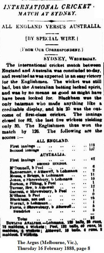 The Ashes match in 1888, from the National Library Australian newspapers digitisation program which are pre-1955 so no copyright: "The service includes newspapers published in each state and territory from the 1800s to the mid-1950s, when copyright applies."